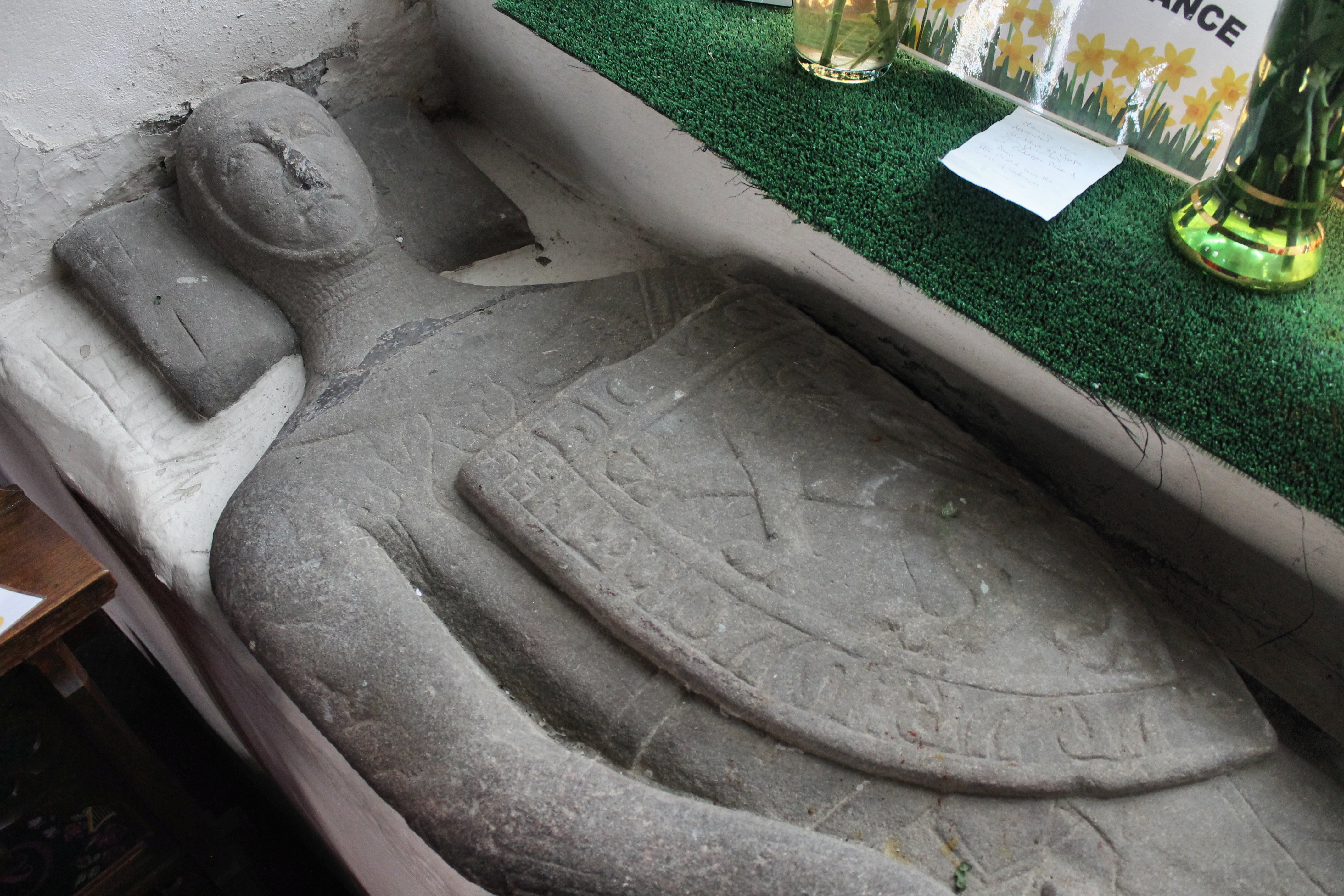 14th century Effigy of Meurig ap Ynyr Fychan, an ancestor of Hywel Sele and the Nanney/Vaughan families of nearby Nannau, Wales. Welsh princes. St Mary's Church, Dolgellau, Gwynedd, Wales.